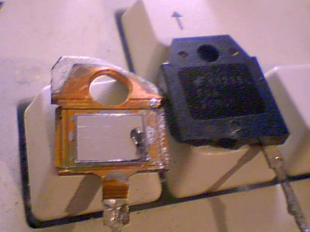 The FQA30N40 is a very good chip that was made to handle 400v at 30 amps. This chip was used with 20 volts 1 amp when it was fried by back emf and a lack of knowledge in electronics. I would definitely buy one of these again in a second! well worth the price.